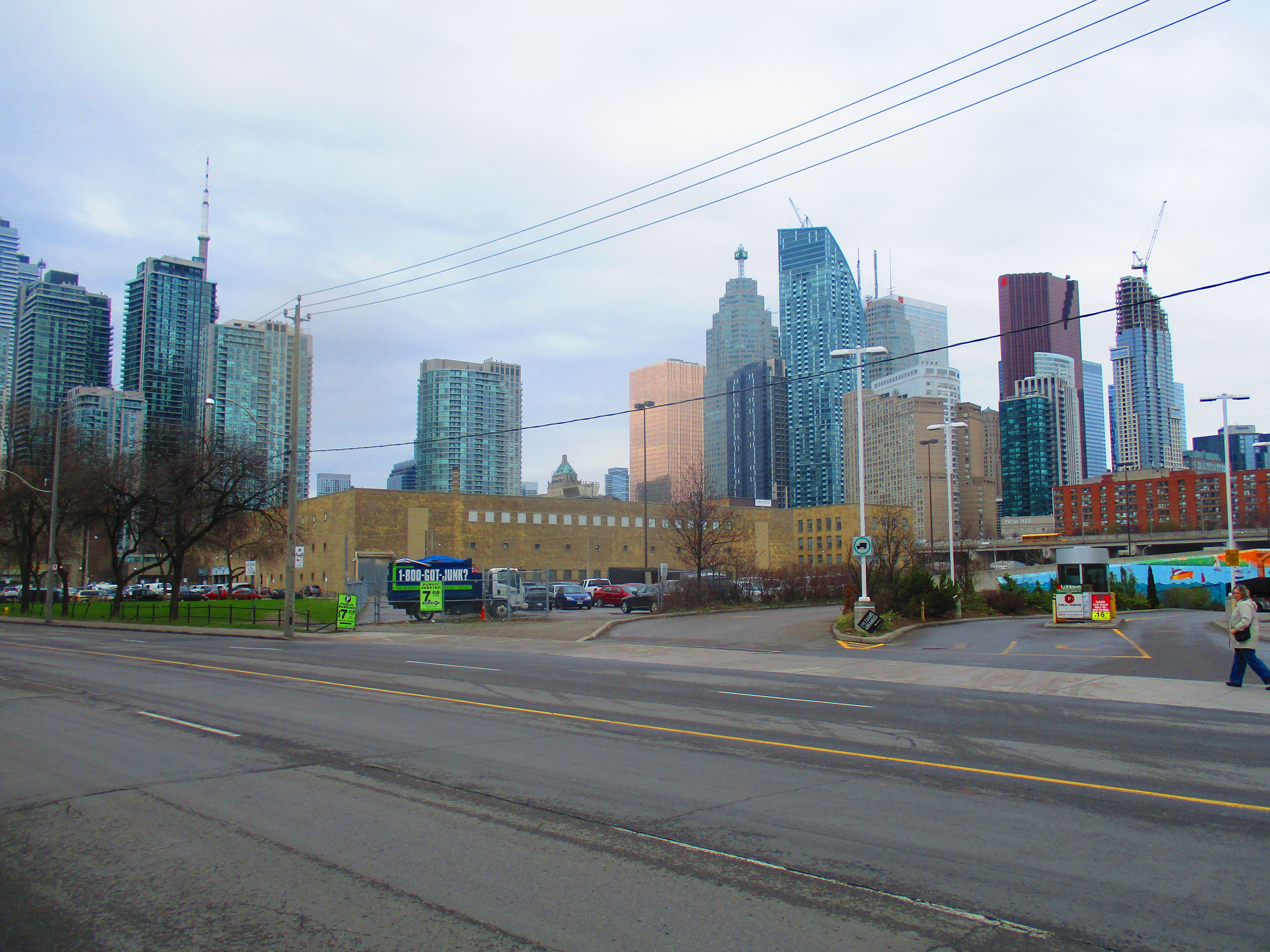 This large LCBO property is about to be turned into highrise condos, 2017 04 19 -b